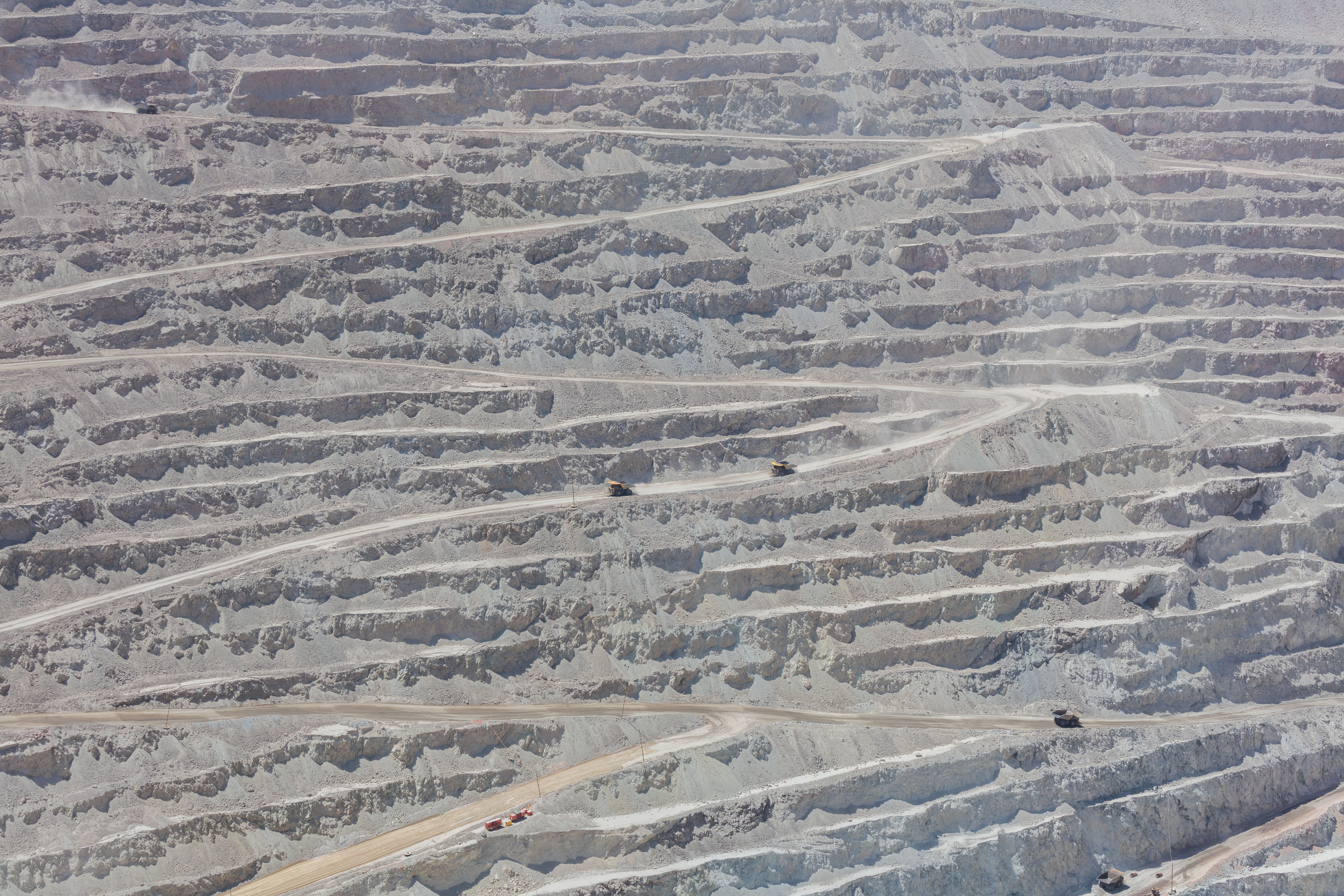 Komatsu haul trucks, Chuquicamata Mine, Calama, Chile